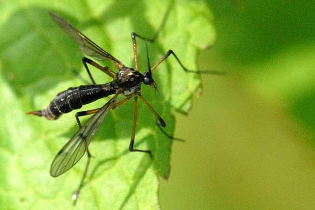 Ptychoptera minuta from Commanster, Belgian High Ardennes .